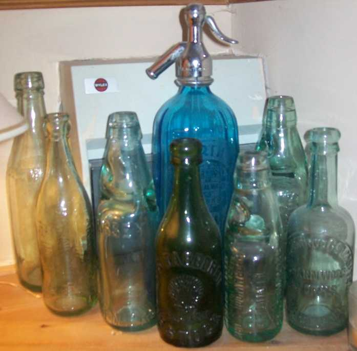 A private collection of late nineteenth and early twentieth century Whitwick bottles